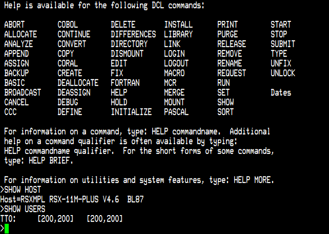 RSX-11M-Plus 4.6, show the execution of DCL commands